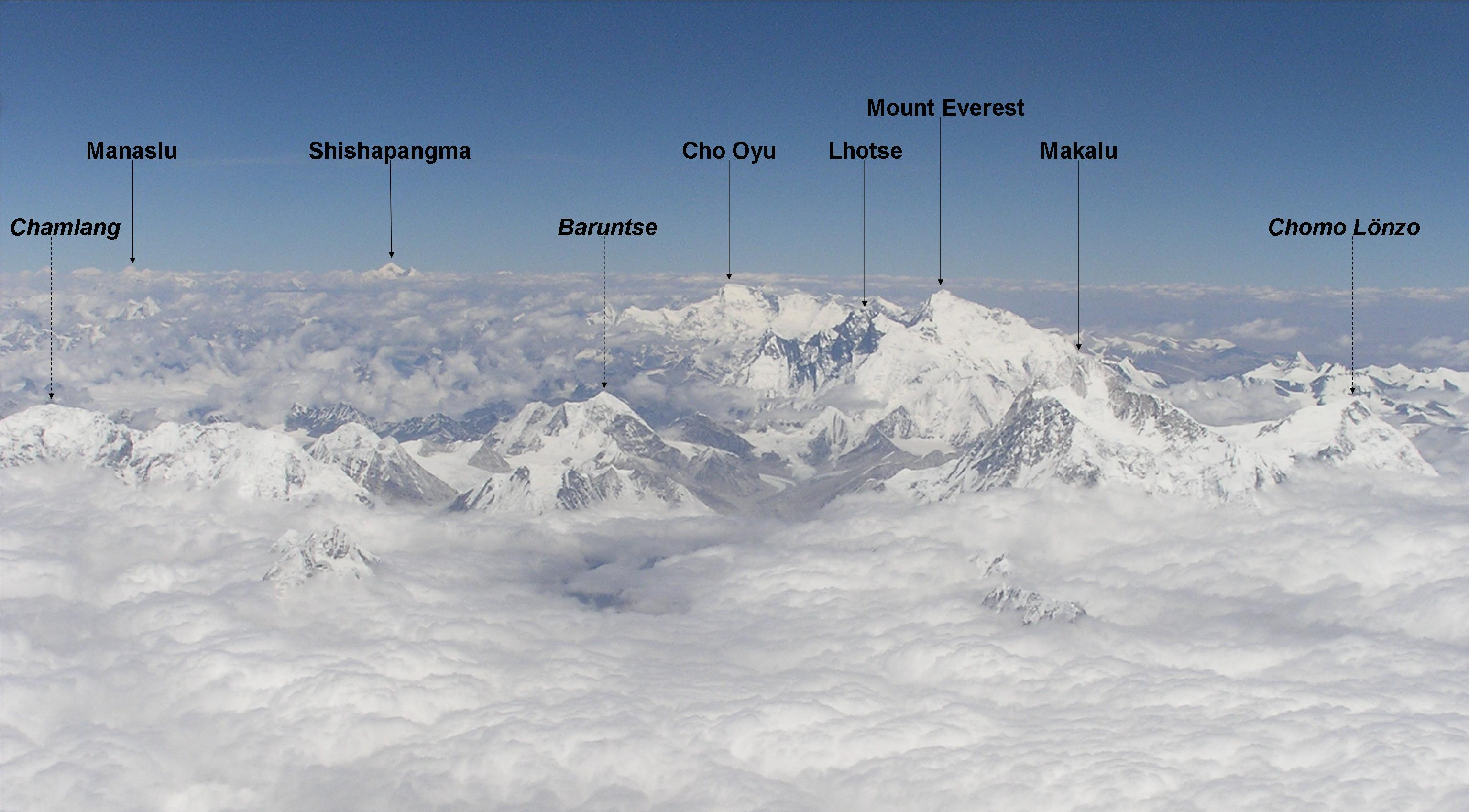 Flight over himalaya to Lhasa, Khumbu region, many eight-thousanders are visible: Makalu, Everest, Lhotse, Cho Oyu, Shishapangma, Manaslu, + 7000ers Chamlang, Baruntse, Chomo Lonzo. To the left of Manaslu in the distance and unlabelled there are (probably) Ngadi Chuli and Himal Chuli (behind the Chamlang-arrow); they were formerly identified as Annapurna and Dhaulagiri but this was proved false; also in the picture but unlabelled: Nuptse (left of Lhotse, below Cho Oyu) and Cho Polu (below Lhotse, right of Baruntse)